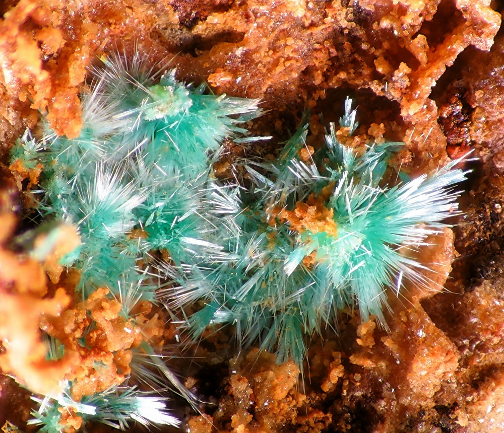 Zálesiite Locality: Dolores prospect, Pastrana, Mazarrón-Águilas, Murcia, Spain (Locality at ) Picture width 5 mm. Collection and photograph Christian Rewitzer